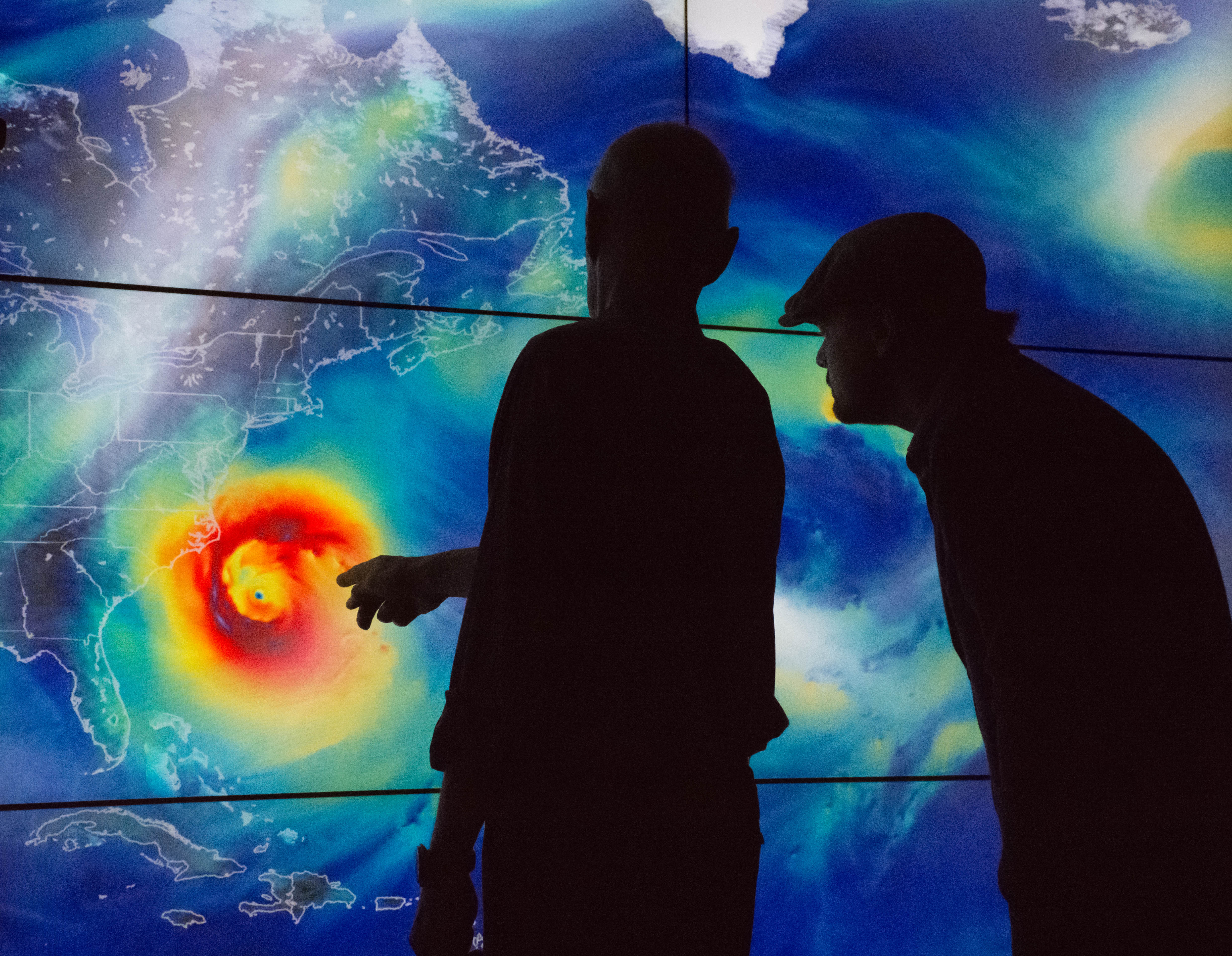 Academy Award®- winning actor and environmental activist Leonardo DiCaprio visited NASA’s Goddard Space Flight Center in Greenbelt, Maryland on Saturday, April 23, 2016. During his visit, Mr. DiCaprio interviewed Dr. Piers Sellers, an Earth scientist, former astronaut and current deputy director of Goddard’s Sciences and Exploration Directorate. The two discussed the different missions NASA has underway to study changes in the Earth’s atmosphere, water and land masses for a climate change documentary that Mr. DiCaprio has in production. Using a wall-size, high-definition display system that shows visual representations based on actual science data, Mr. DiCaprio and Dr. Sellers discussed data results from NASA’s fleet of satellites in Earth’s orbit. The visual shows Hurricane Sandy. The visual uses data from Goddard Earth Observing System Model, Version 5 (GEOS-5) to simulate surface wind speeds across the Atlantic during Sandy’s lifecycle. During his visit, Mr. DiCaprio also visited the facility holding NASA’s James Webb Space Telescope that is being developed as a large infrared telescope with a 6.5-meter primary mirror. The telescope will be launched on an Ariane 5 rocket from French Guiana in October of 2018, and will be a premier observatory of the next decade, serving thousands of astronomers worldwide. Credit: NASA/Goddard/Rebecca Roth NASA image use policy. NASA Goddard Space Flight Center enables NASA’s mission through four scientific endeavors: Earth Science, Heliophysics, Solar System Exploration, and Astrophysics. Goddard plays a leading role in NASA’s accomplishments by contributing compelling scientific knowledge to advance the Agency’s mission. Follow us on Twitter Like us on Facebook Find us on Instagram